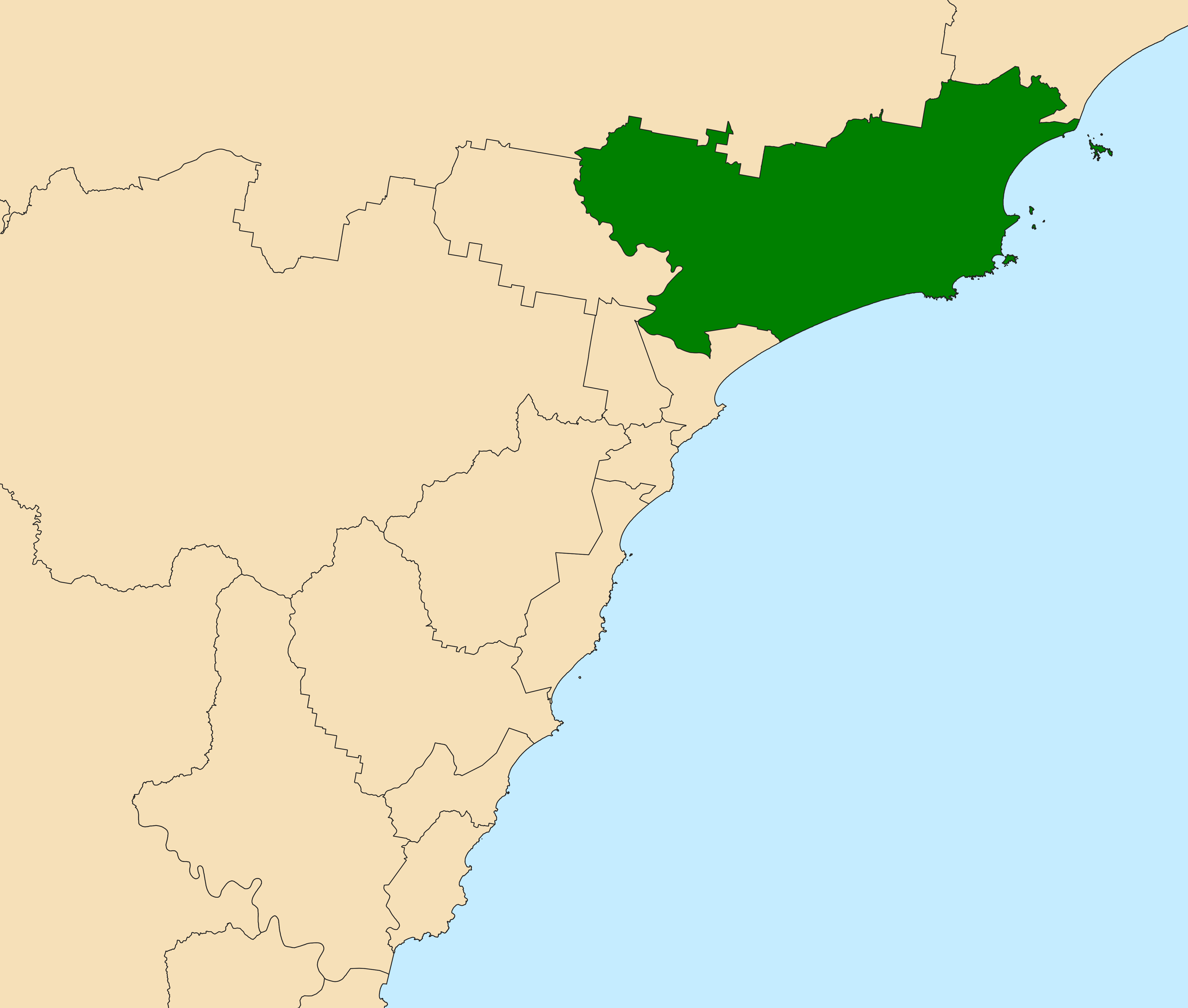 Location of the state electoral district of Port Stephens (dark green) in the Central Coast region of New South Wales, Australia as of the 2019 New South Wales state election. Incorporates or developed using Administrative Boundaries ©PSMA Australia Limited licensed by the Commonwealth of Australia under Creative Commons Attribution 4.0 International licence (CC BY 4.0).